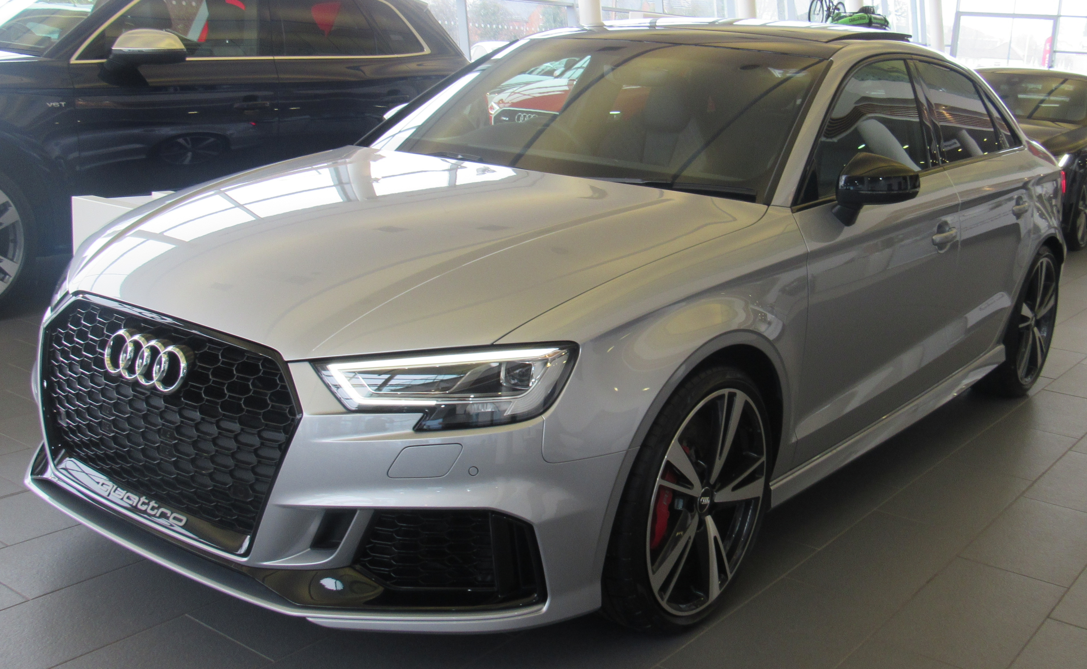 2017 Audi RS 3 Quattro Front Taken in Listers Birmingham Audi, Shirley, Solihull